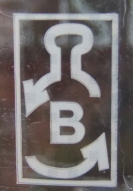 Bottle deposit symbol on a 1.5-litre bottle in Estonia. The letter "B" denominates bottles with capacity greater than 0.5 litres.